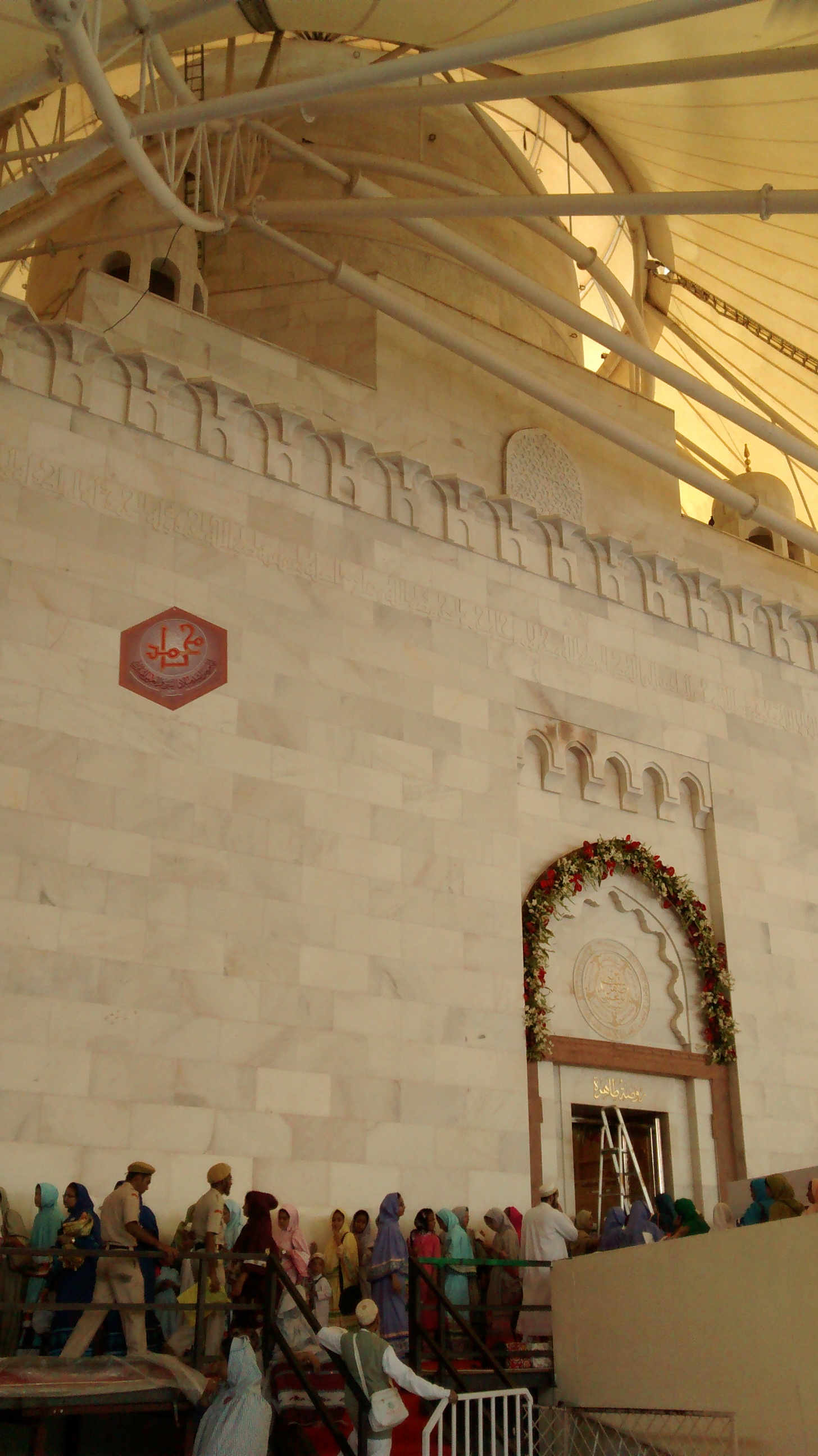 Mausoleum 51st and 52nd Dai Dawoodi Bohra